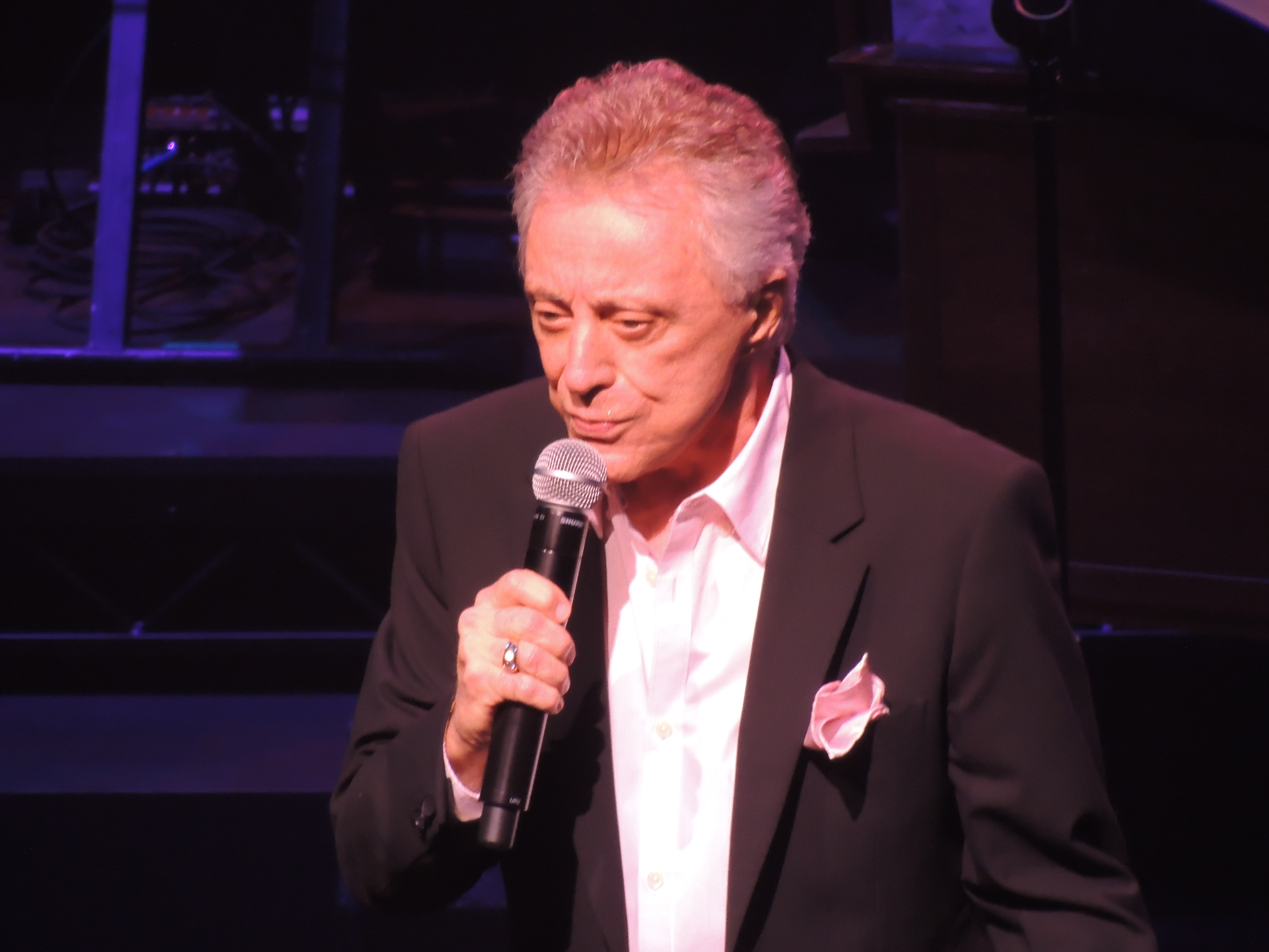 Frankie Valli on Broadway in New York City, 2012-10-27